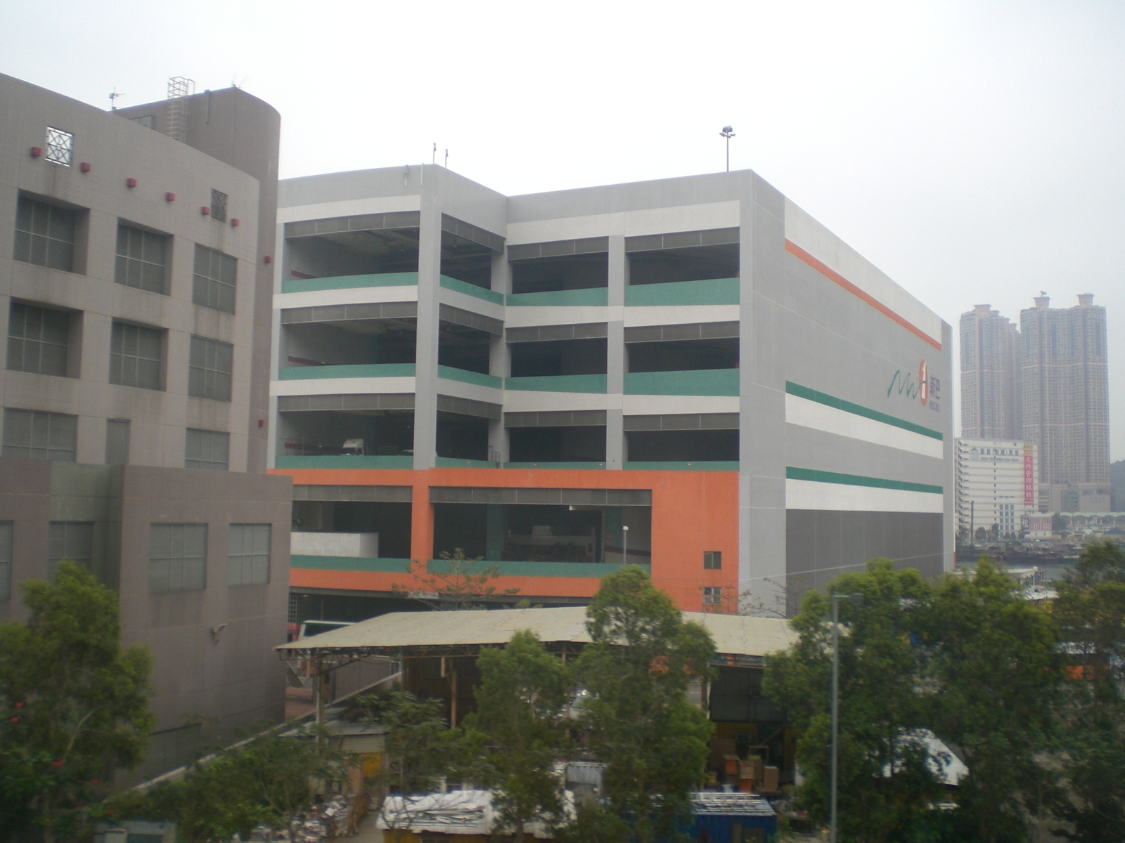 新世界第一巴士 New World First Bus, Chai Wan 柴灣車廠. By me.